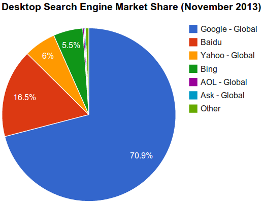 Desktop Search Engine Market Share in November 2013 (based on NetApplications)